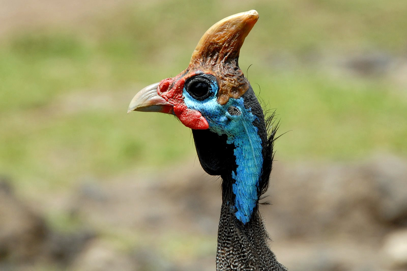 A Helmeted guineafowl at Serengeti National Park, Tanzania